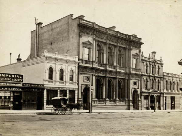 The Bank of New South Wales (tallest building in picture) and the City of Melbourne Bank Ltd. (directly to the right) in Melbourne, Australia.